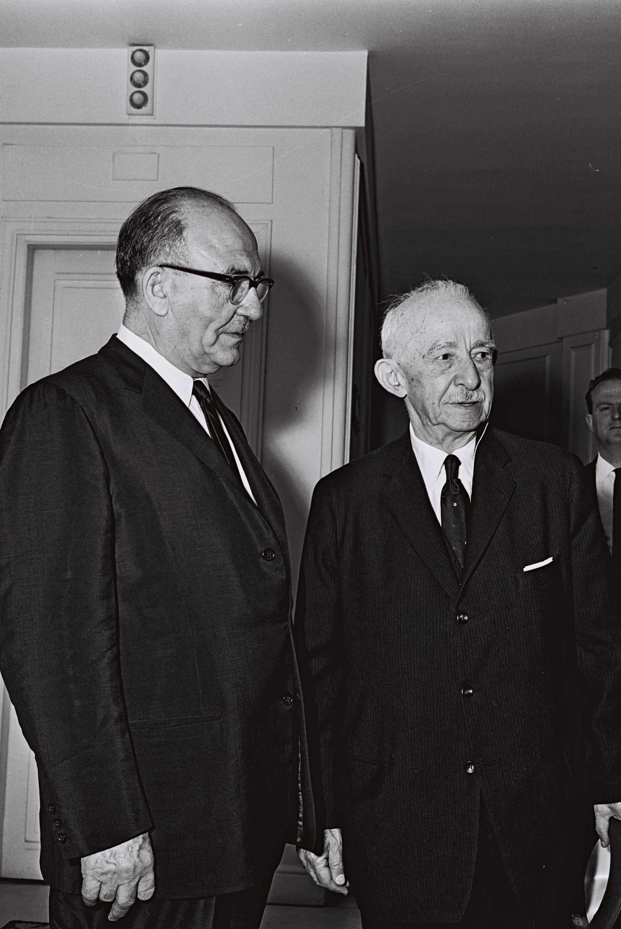 P.M. LEVY ESHKOL WITH TURKISH P.M. ISMET INONU AT THE BRISTOL HOTEL IN PARIS, DURING HIS VISIT IN FRANCE.